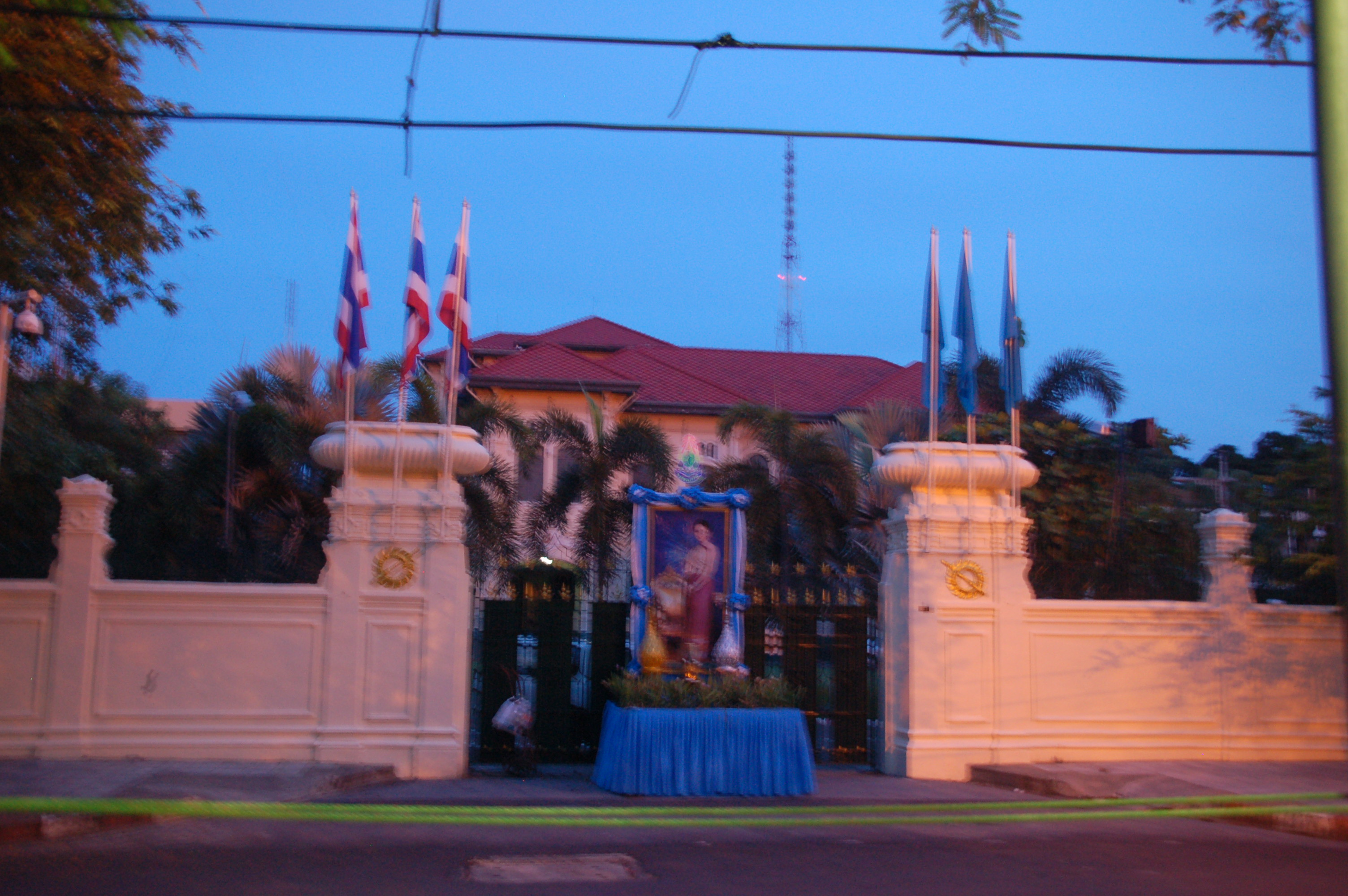 Paruskawan mansion, Paruskawan Palace, Dusit Palace, former residence of HRH Prince Chakrabongse Bhuvanath since 1906 13°46′01″N 100°30′36″E / 13.7669961°N 100.5101341°E